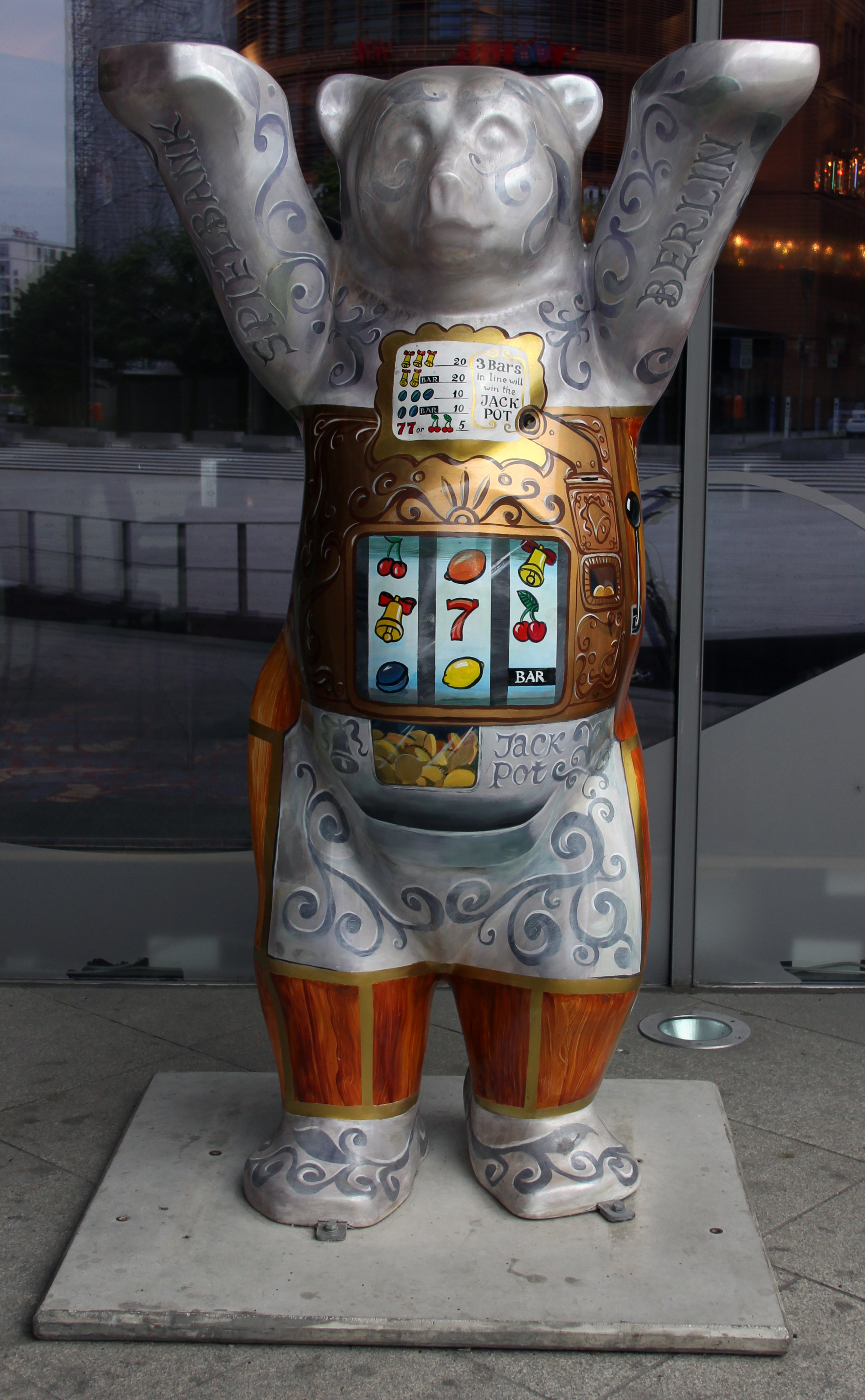 Sculpture, Buddy Bär Spielbank Berlin, Marlene-Dietrich-Platz 1, Berlin-Tiergarten, Germany